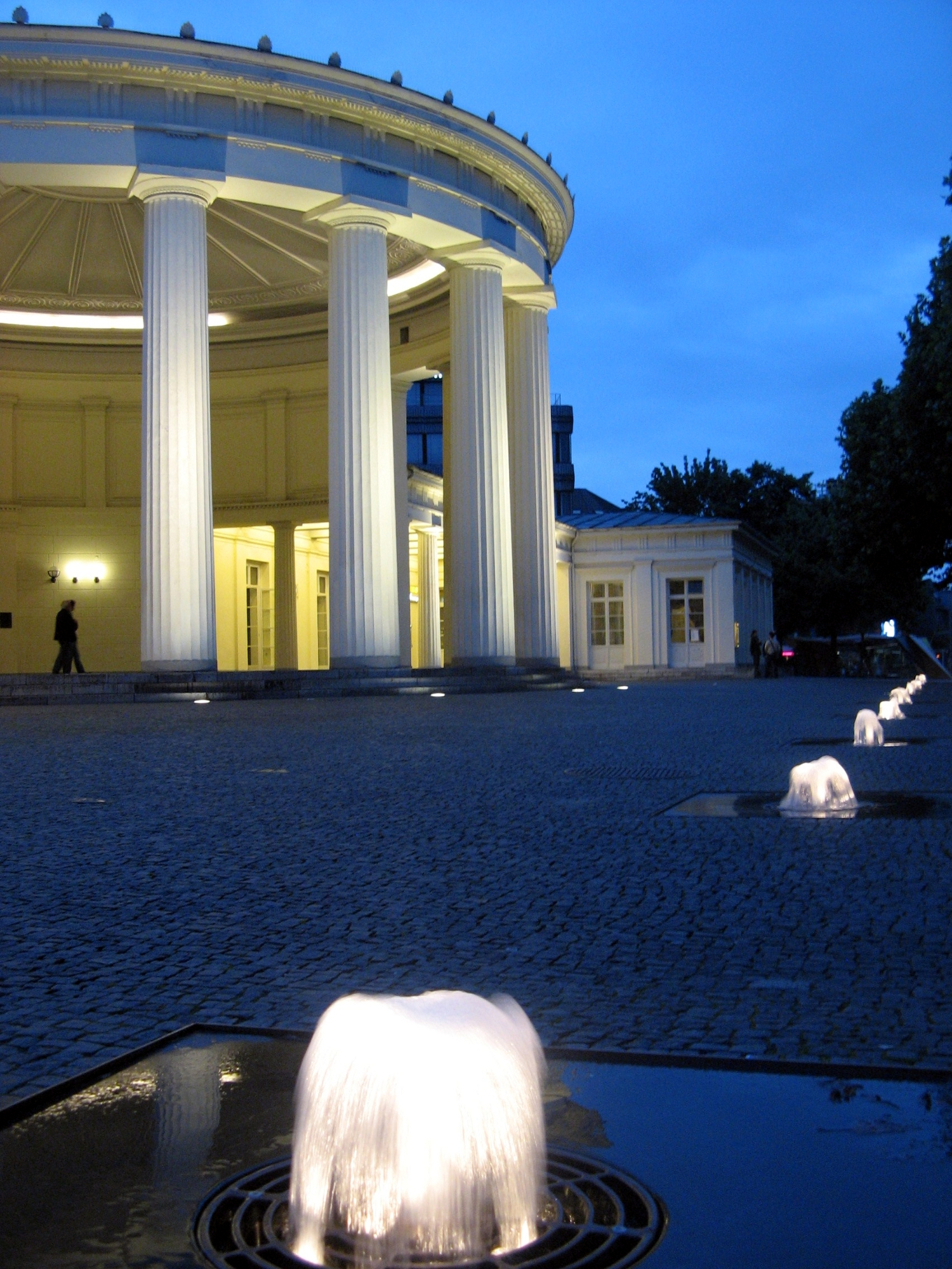 The most famous fontain in Aachen (Germany), Elisenbrunnen